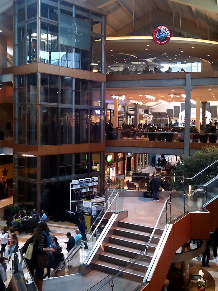 Bellevue Square